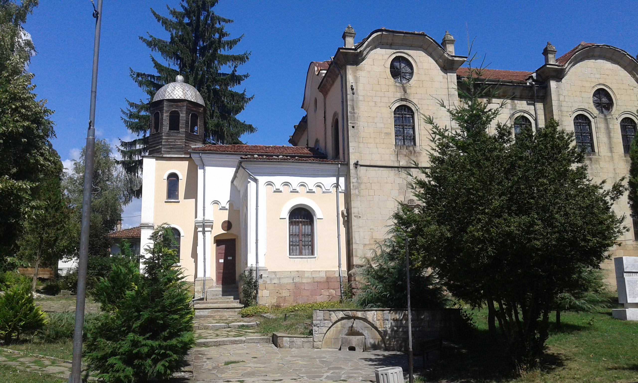 A church in Kotel, Bulgaria